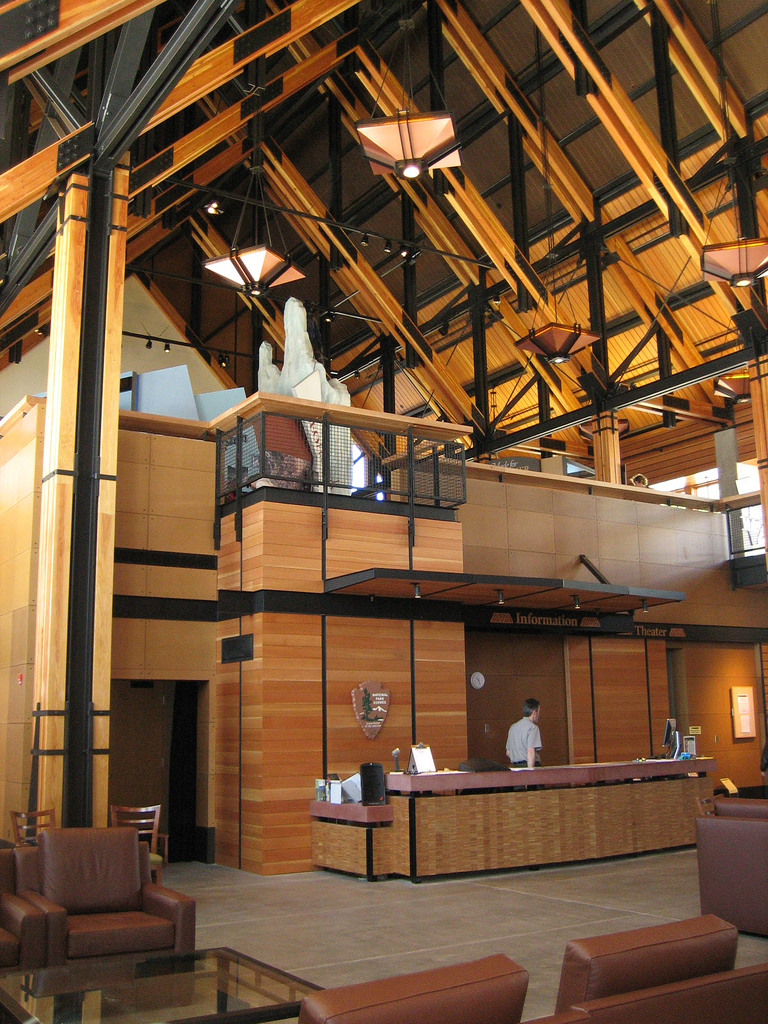 The new Henry M. Jackson Visitor Center in the Paradise area of Mount Rainier National Park in Washington, United States.